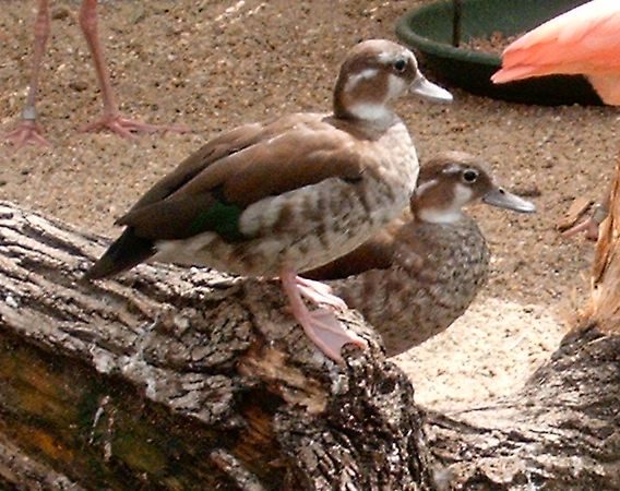 Females of Callonetta leucophrys, Budapest Zoo